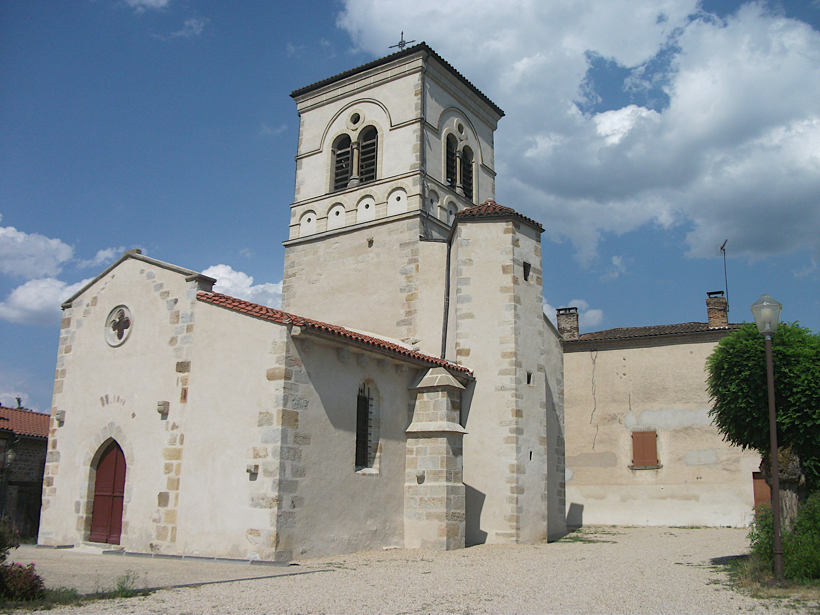 Church of Néronde-sur-Dore, Puy-de-Dôme, Auvergne-Rhône-Alpes, France. [18618]